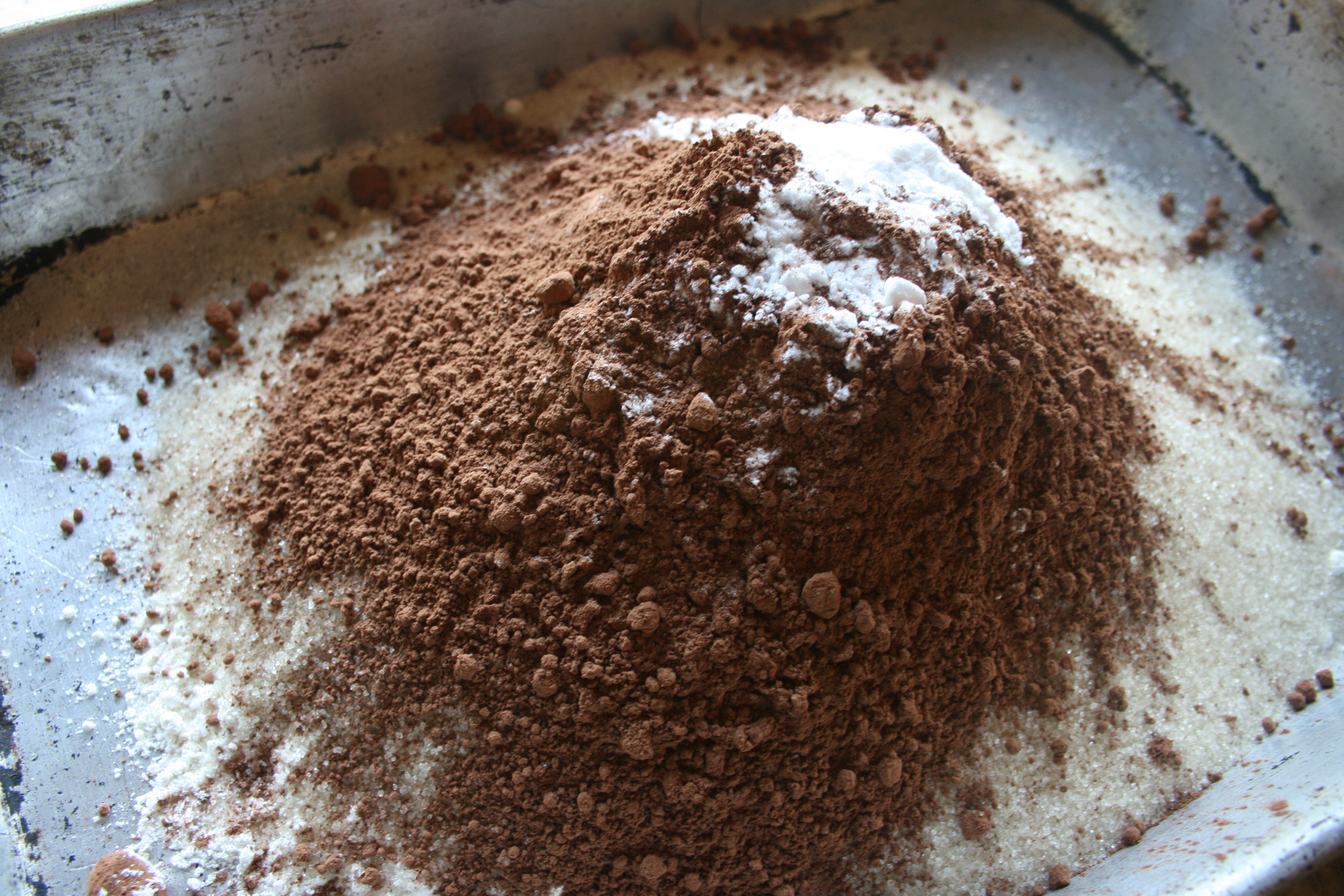 Dry ingredients for a Wacky Cake - ingredients to make the cake include flour, sugar, cocoa powder, baking soda, vegetable oil, white vinegar and vanilla extract, No eggs or milk are used.